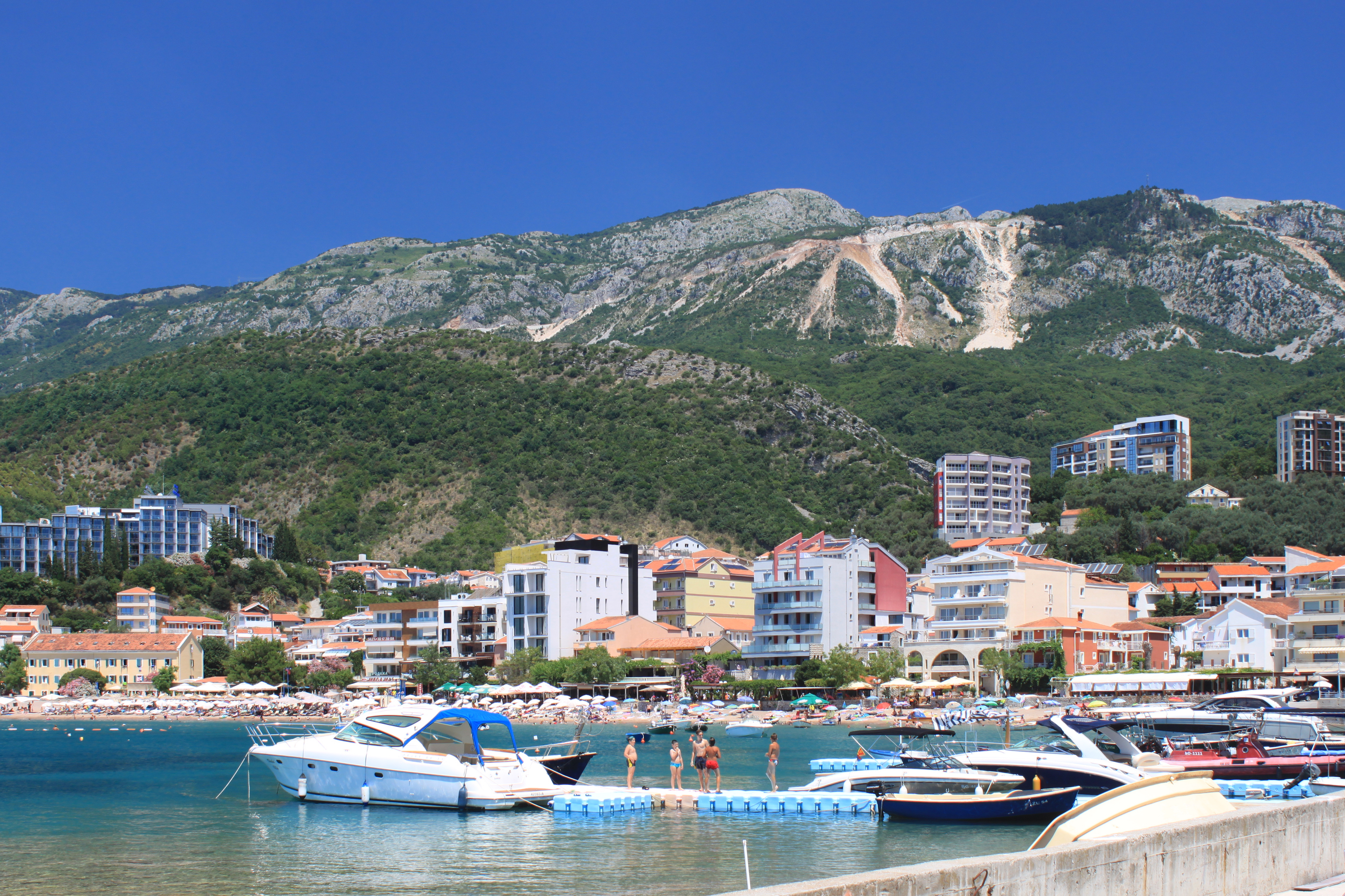 Rafailovići village, Montenegro